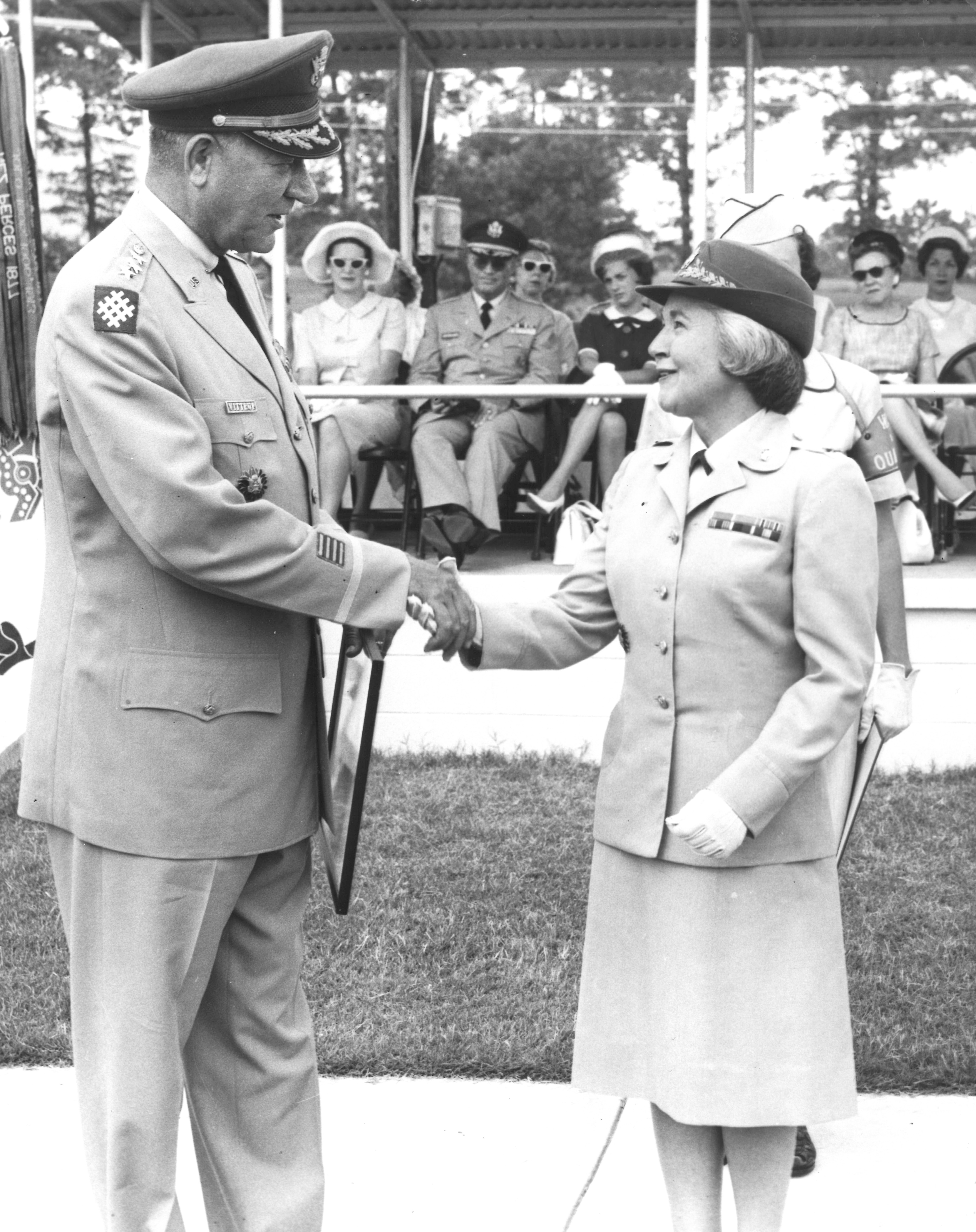 From the back of the photo: FORT MCCLELLAN, ALA.--Col. Mary Louise Milligan Rasmuson, Director of the Women's Army Corps for the past five years, accepts a Department of the Army award during a retirement parade in her honor here at the U.S. Women's Army Corps Center July 30. Col. Rasmuson was cited for long and distinguished service in the Army Chief of Staff Scroll presented here by Lt. Gen. Russell L. Vittrup (left), Army Deputy Chief of Staff for Personnel. (US ARMY PHOTO)